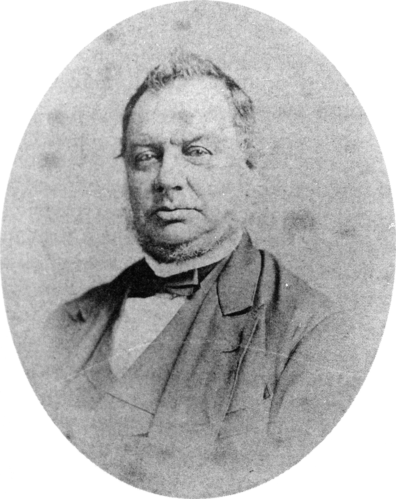 Portrait of the municipal architect of Leiden, J.W. Schaap (1813-1887)